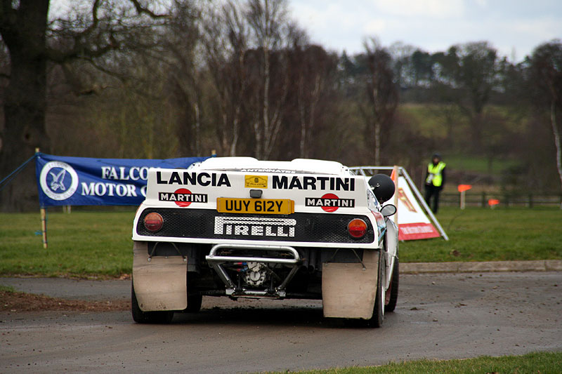 Lancia 037 at the rally stage at the Historic Motorsport Show, Stoneleigh, UK, 2006.